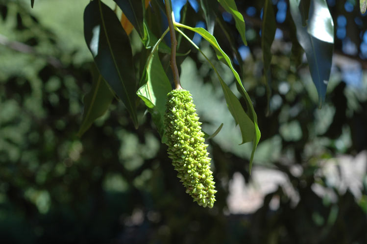 Immature fruit of Flindersia pimenteliana in Mount Annan Botanic Gardens, New South Wales